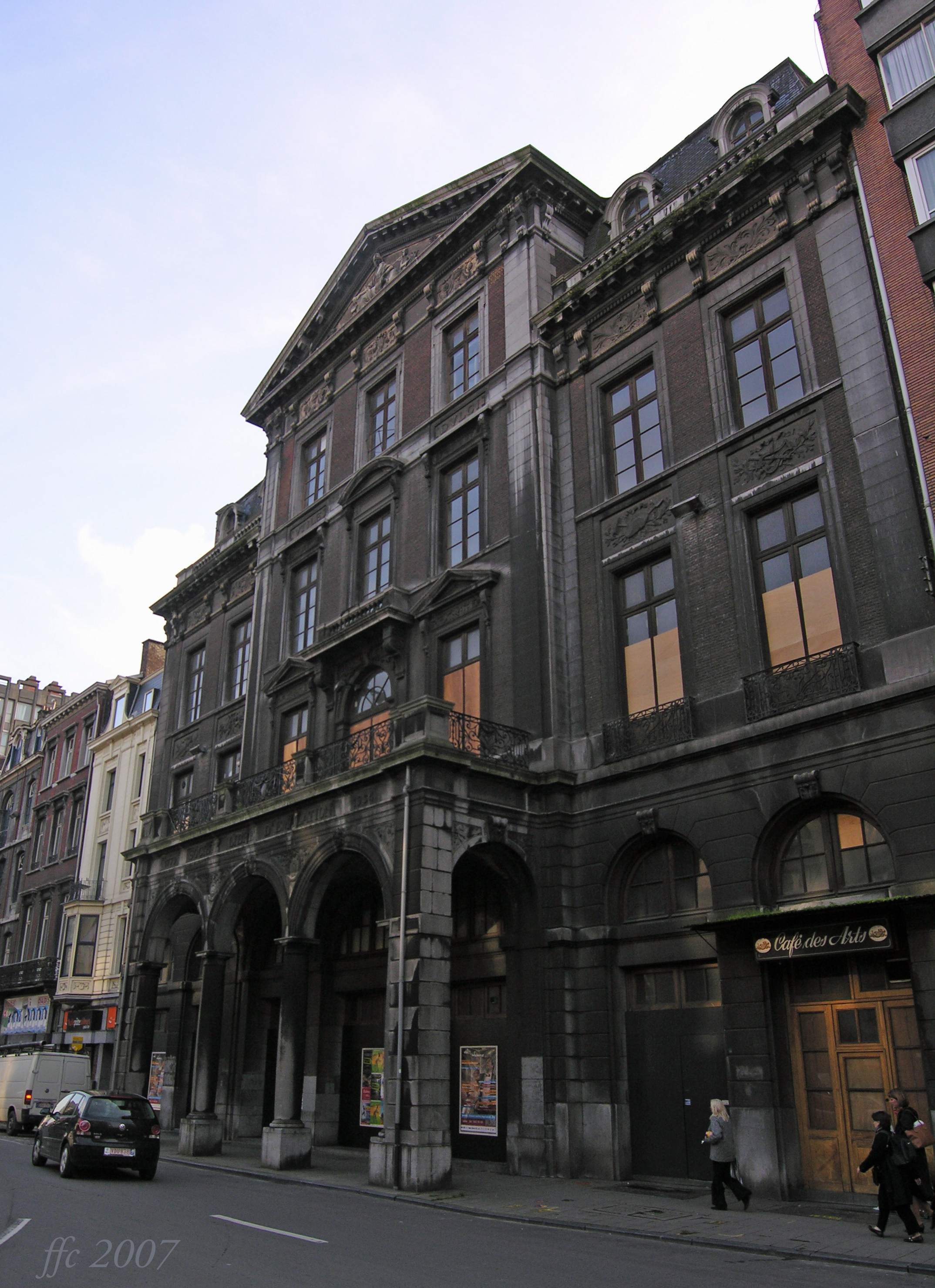 House from the artistical society L'Emulation, Liège, Belgium